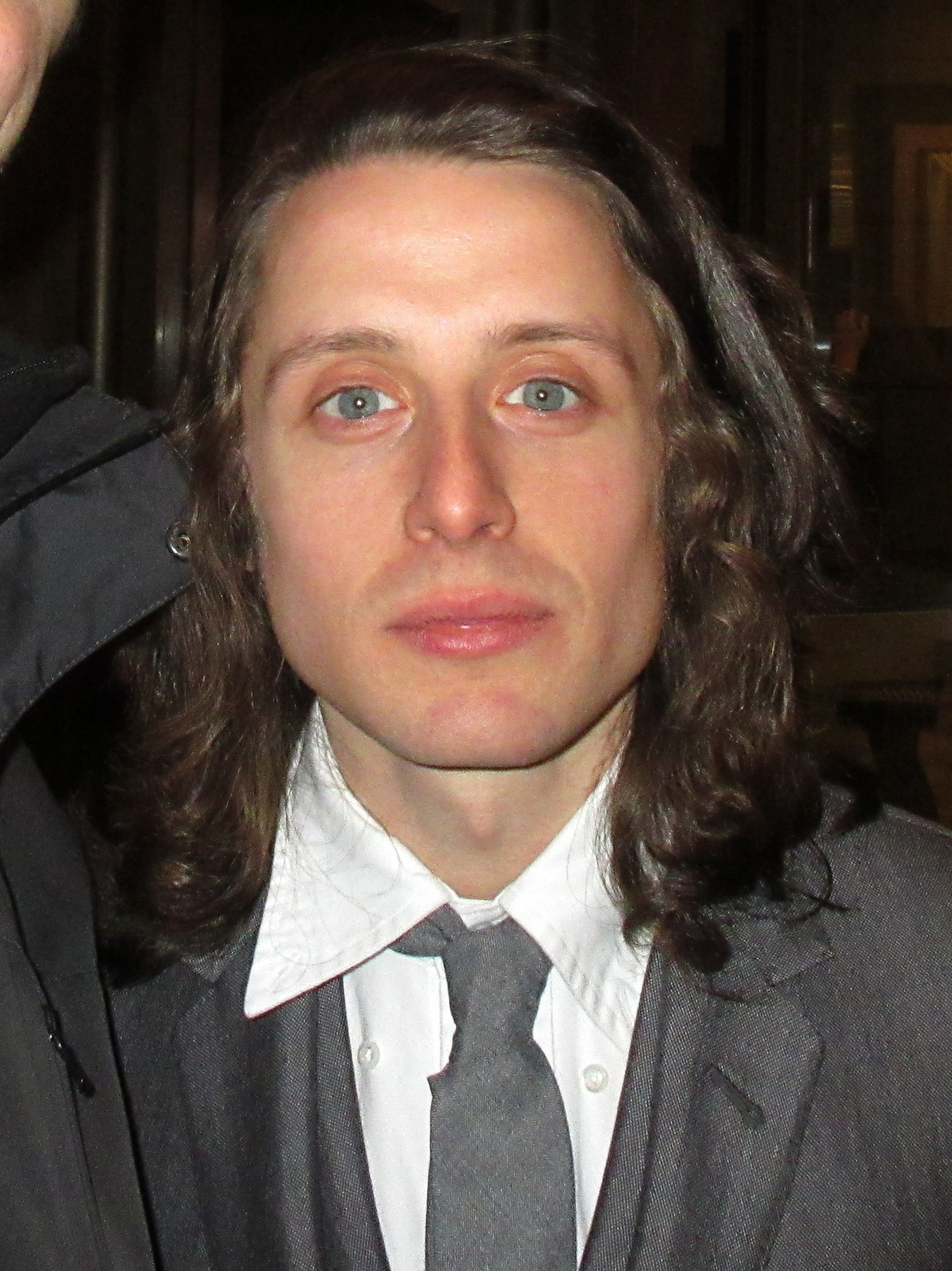 Star of Signs and Waco. NYC Jan '18.